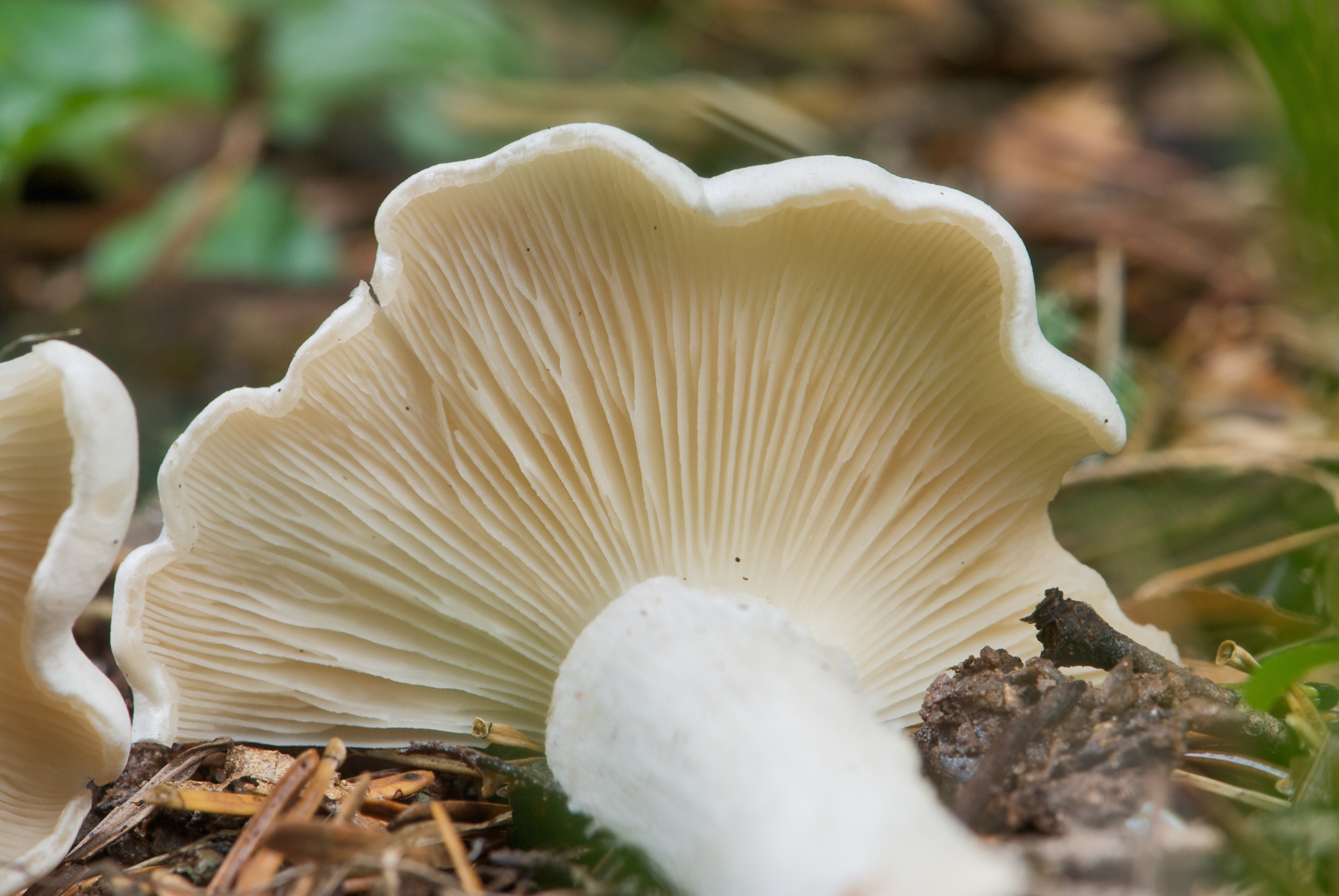 Lyophyllum connatum is a fungus of the genus Lyophyllum. The picture shows a close-up of the hymenium of a five-day-old sporocarp.